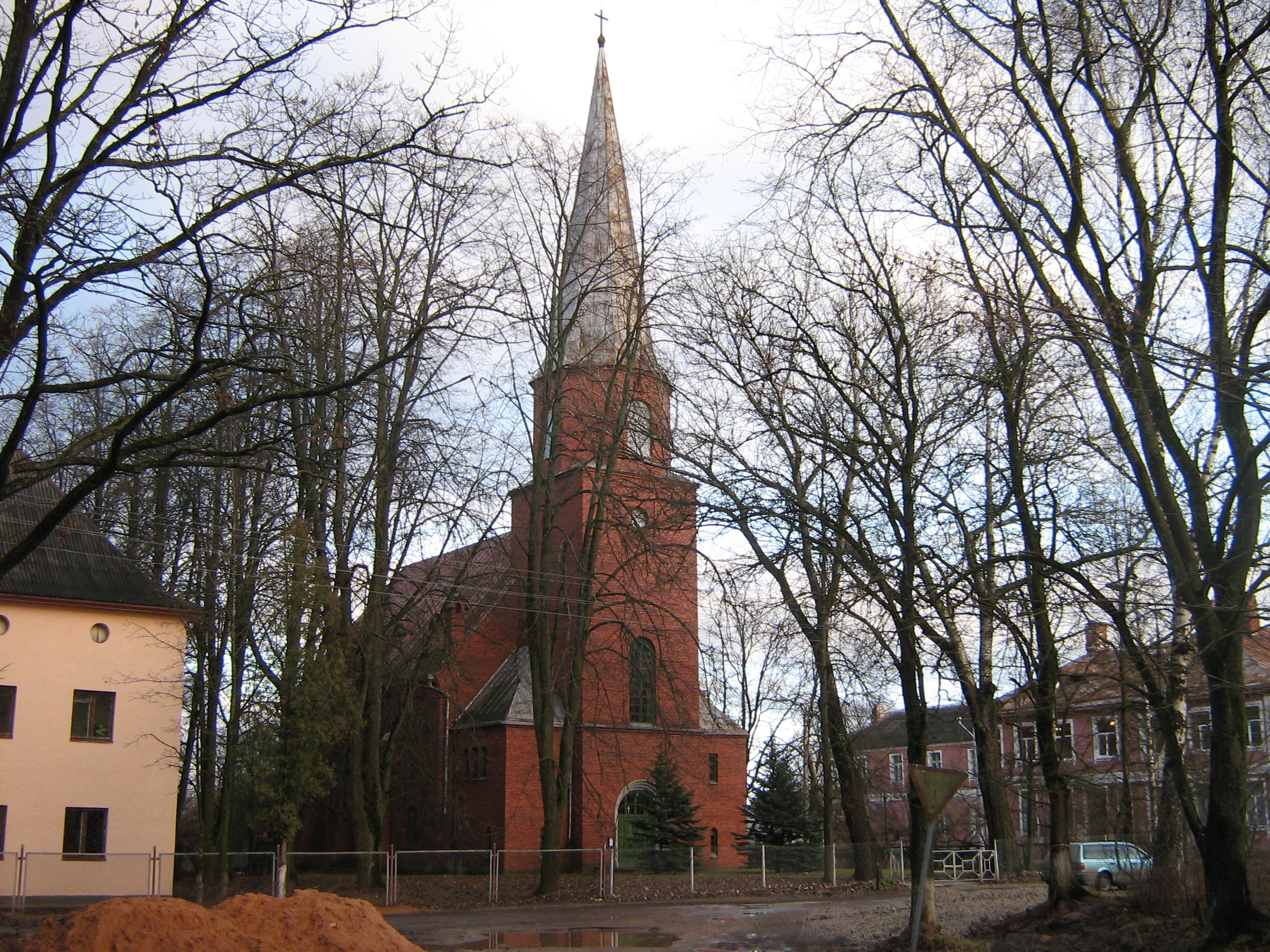 Church of saint Peter in Pechory